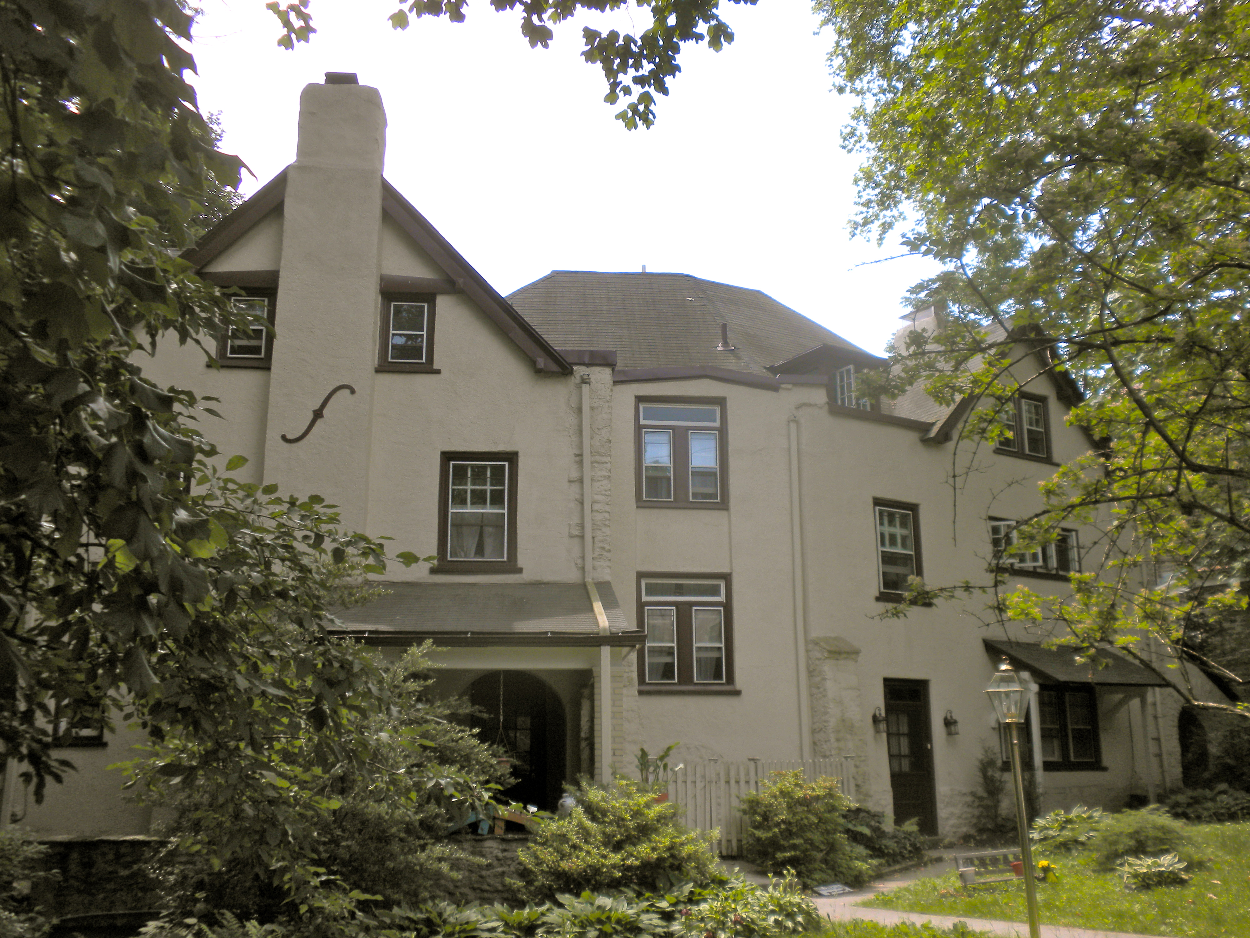 The house of Connie Mack, baseball manager, according to Pennsylvania Museum and Historical Commission sign in front of property. Just off Lincoln Drive on Cliveden Street in West Mt. Airy neighborhood of Northwest Philadelphia